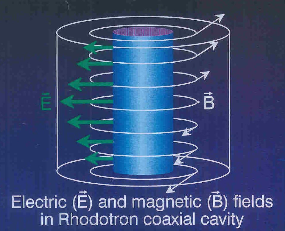 Electric field in the Rhodotron accelerating cavity